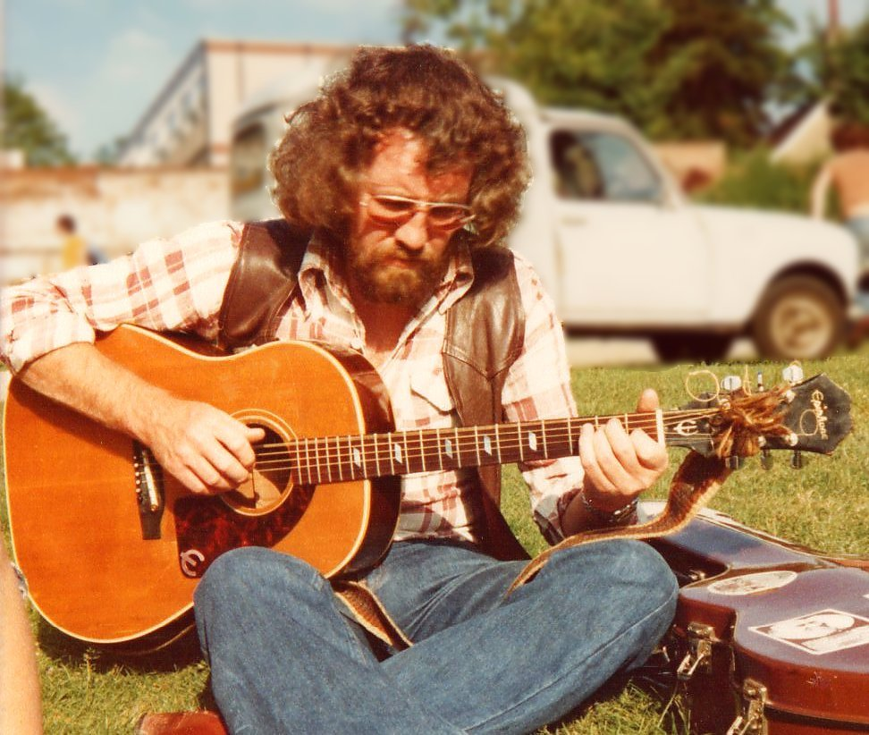 Wizz Jones, musician, at the Norwich Folk Festival, U.K., 1978 (photograph by Tony Rees)